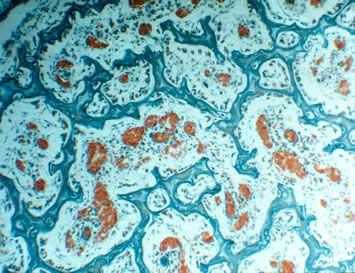 Scan showing bone cells